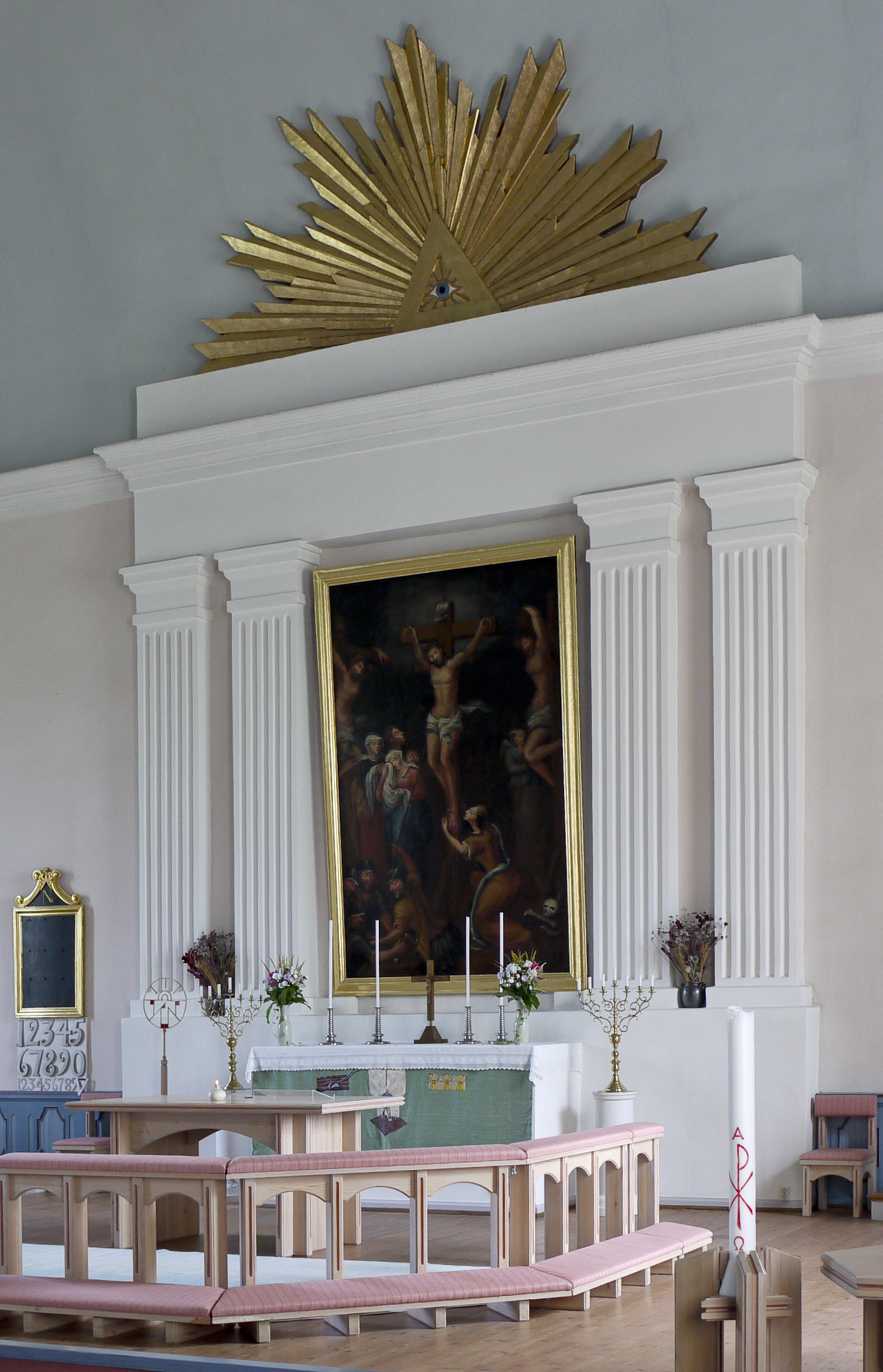 Bjursås kyrka/church. Diocese of Västerås, Falu kommun, Sweden. Altar.